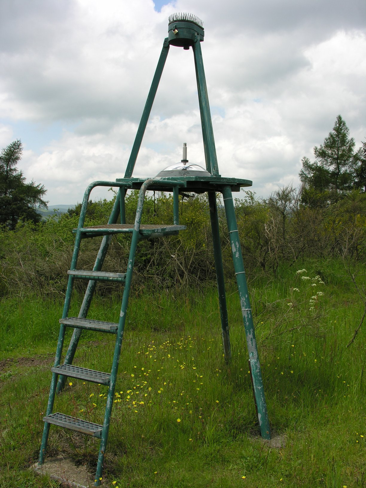 Camera used to monitor meteors.